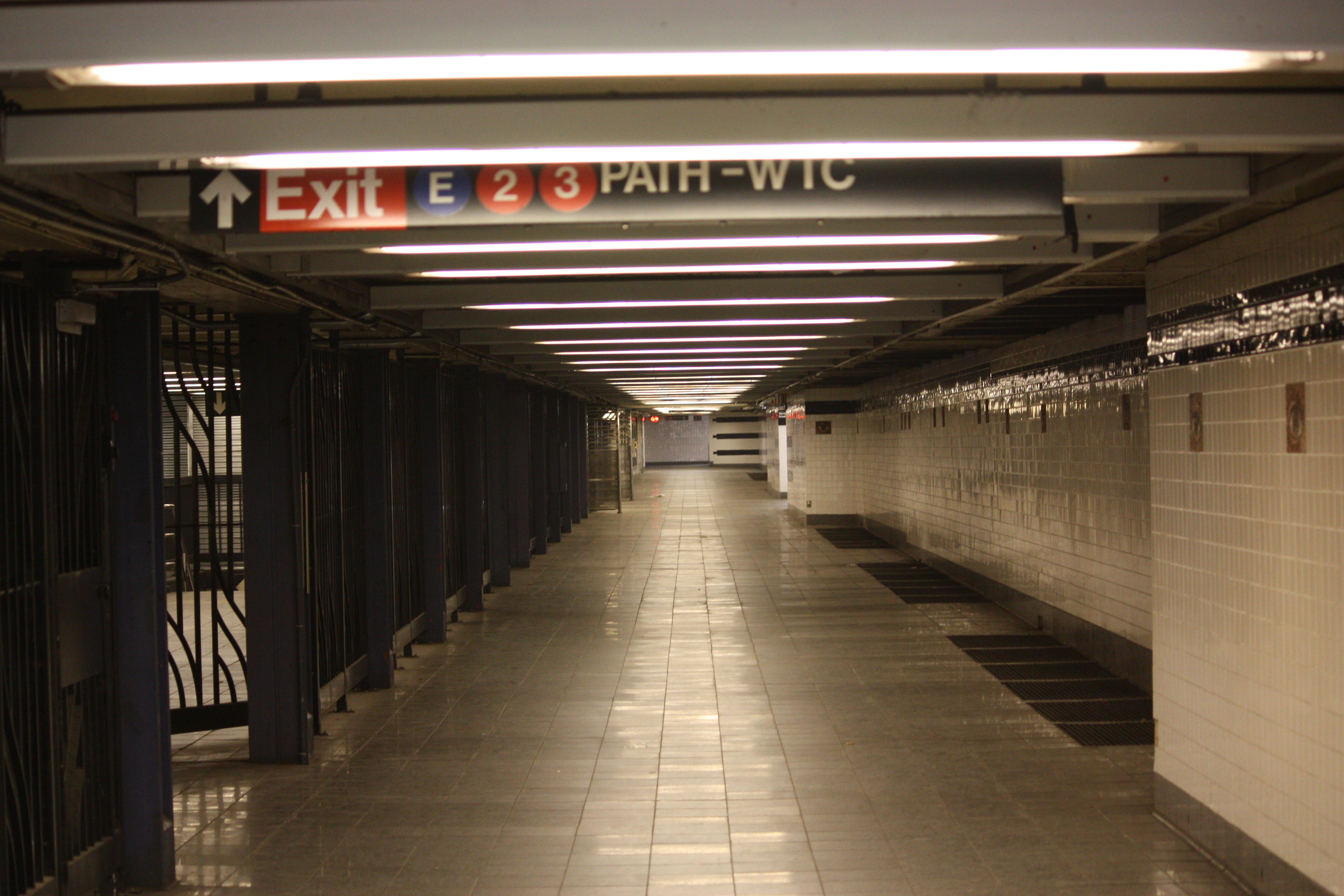 Eyes everywhere at the walls... Even with no one near I felt like I was being watched. Going to the WTC site.